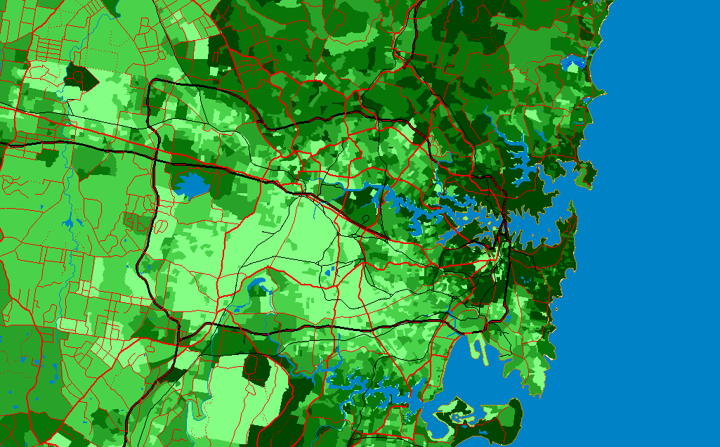 Sydney - darker areas indicate higher levels of household-income.